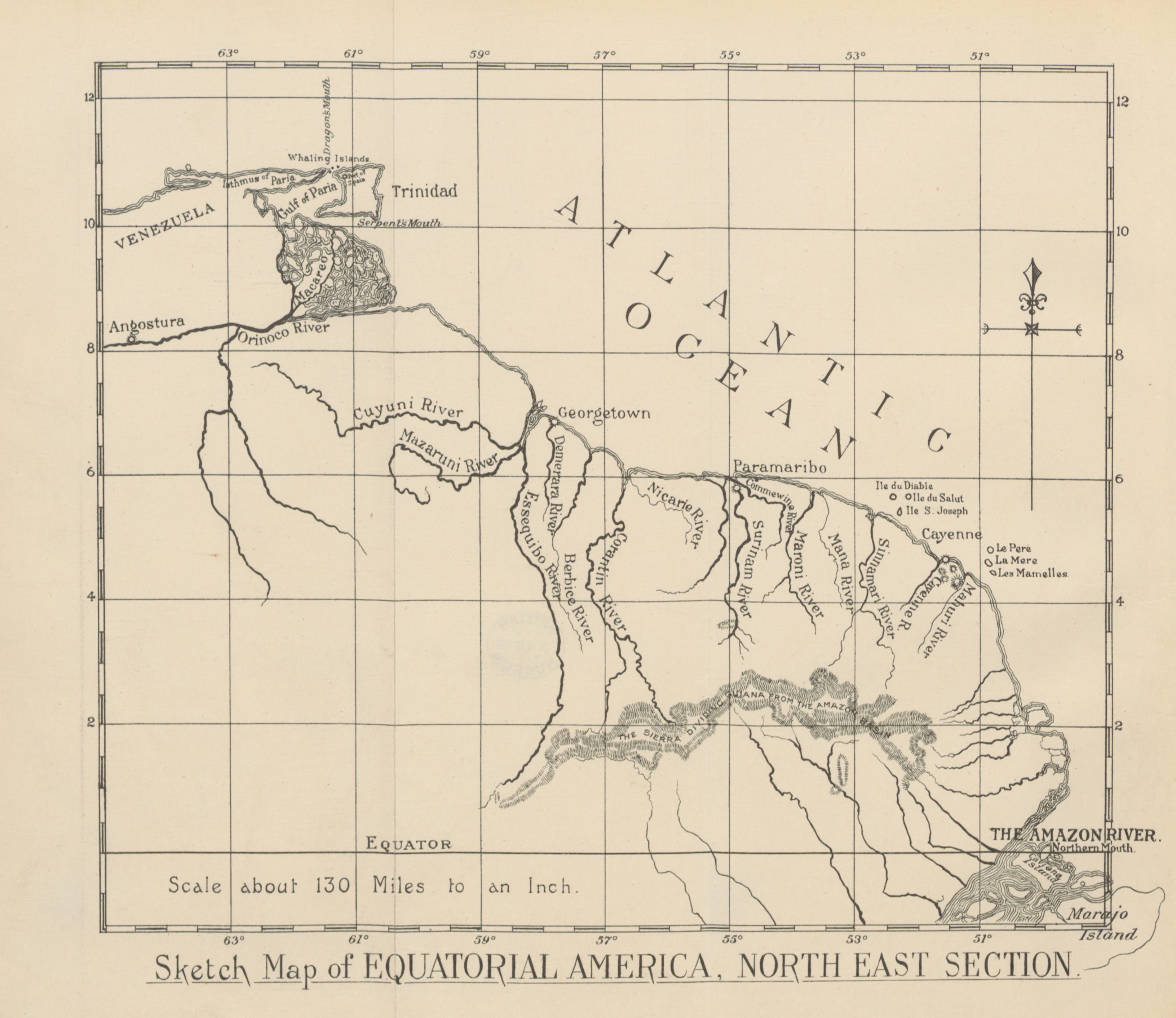 View this map on the BL Georeferencer service. Image taken from: Title: "Adventures amidst the Equatorial Forests and Rivers of South America; also in the West Indies and the wilds of Florida. To which is added “Jamaica Revisited.” ... With many illustrations and maps" Author: STUART, Henry Windsor Villiers - Hon Shelfmark: "British Library HMNTS 010480.i.1." Page: 10 Place of Publishing: London Date of Publishing: 1891 Publisher: John Murray Issuance: monographic Identifier: 003531535 Explore: Find this item in the British Library catalogue, 'Explore'. Download the PDF for this book (volume: 0) Image found on book scan 10 (NB not necessarily a page number) Download the OCR-derived text for this volume: (plain text) or (json) Click here to see all the illustrations in this book and click here to browse other illustrations published in books in the same year. Order a higher quality version from here. This file is from the Mechanical Curator collection, a set of over 1 million images scanned from out-of-copyright books and released to Flickr Commons by the British Library. Please add the Flickr page URL for the image Please add the British Library system number for the book This tag does not indicate the copyright status of the attached work. A normal copyright tag is still required. See Commons:Licensing.